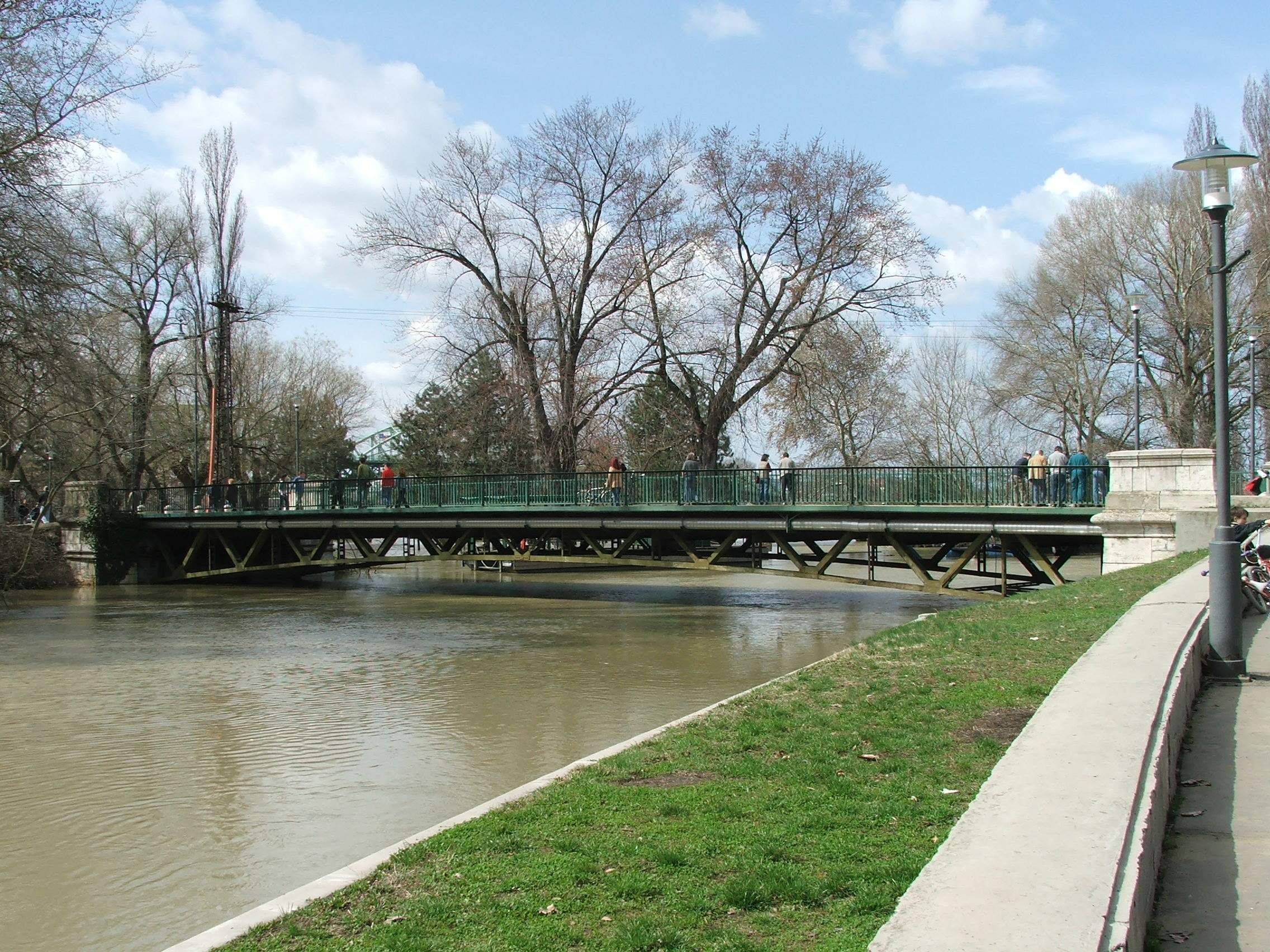 The Kossuth bridge is Esztergom, Hungary